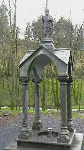 Monument to Saint Fursey at Bellefontaine (Bièvre) Walon: monumint a Sint Furzi a Belfontinne-dilé-Bive (portrait saetchî pa L. Mahin).